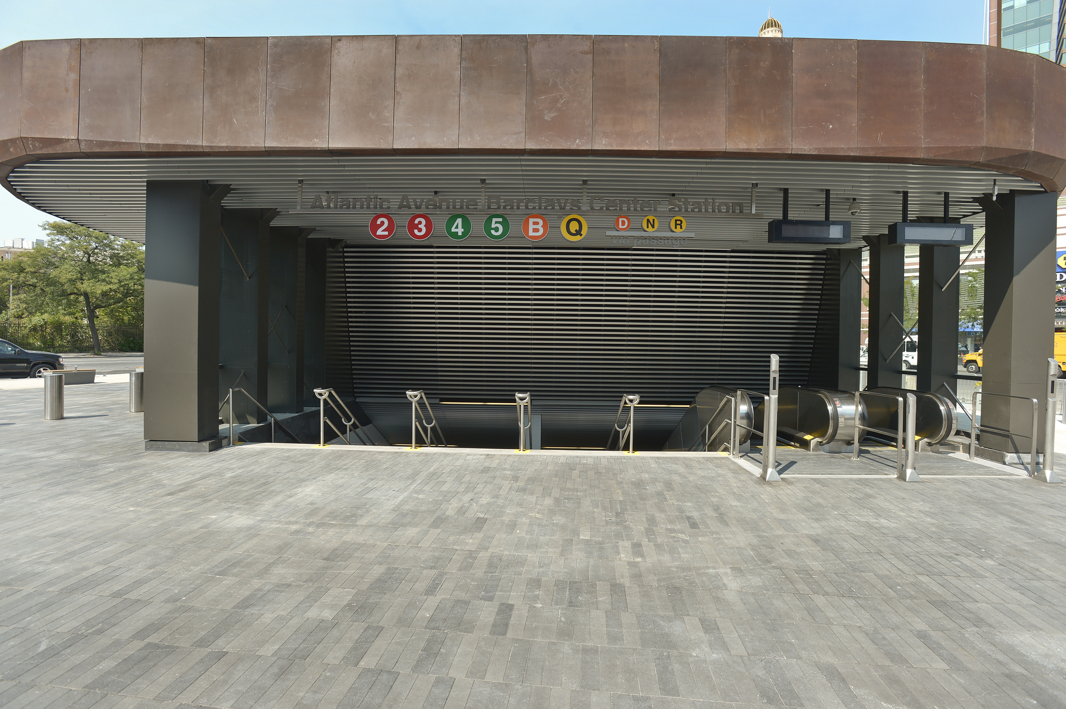 MTA New York City Transit has opened a brand new entrance to the Atlantic Av-Barclays Center subway complex. This new entrance allows for a greater volume of fans to enter and exit the arena more easily. Photo: Metropolitan Transportation Authority / Patrick Cashin.